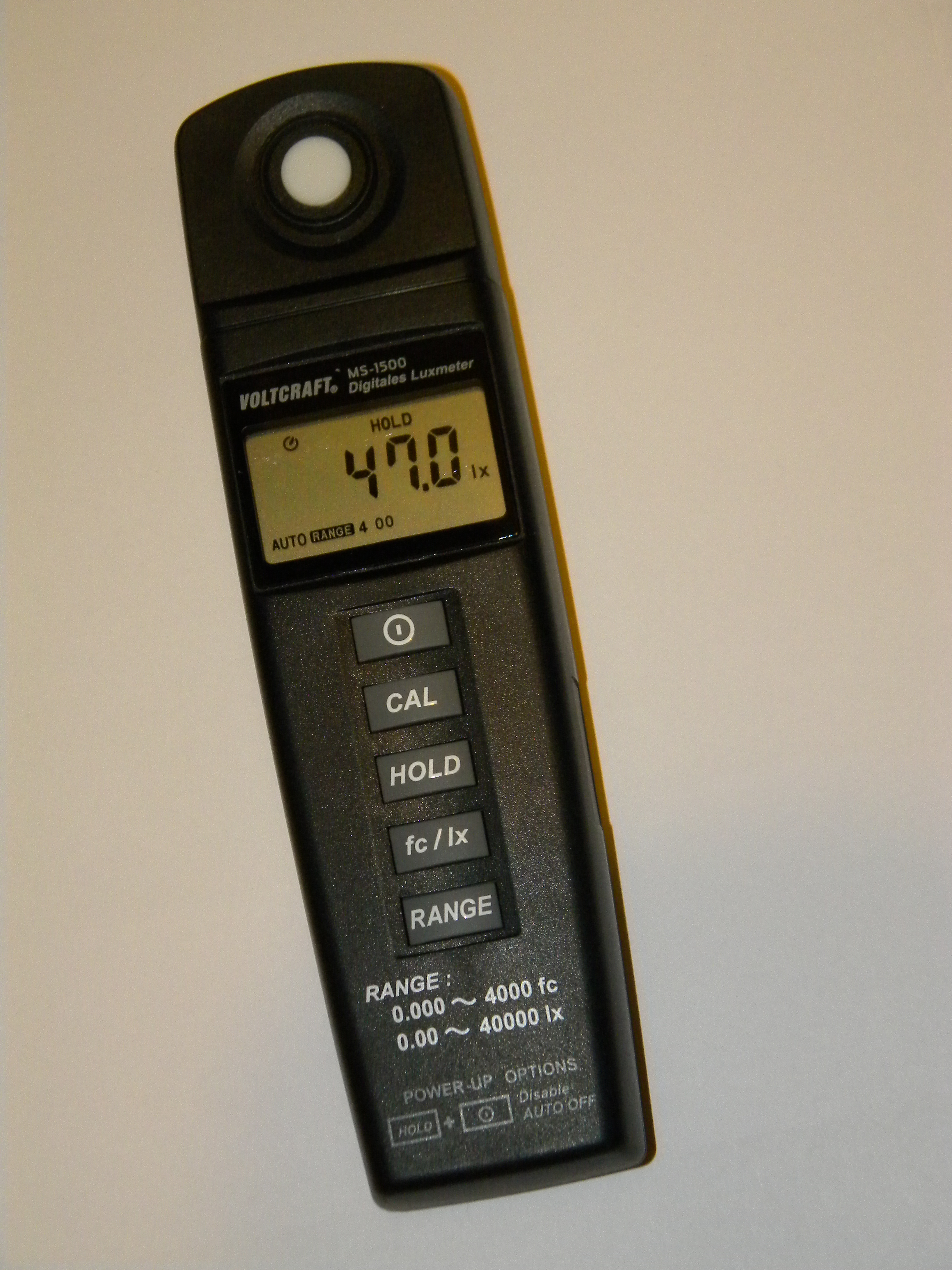 Digital luxmeter